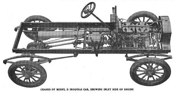 Iroquois Motor Car Company - Model D frame - 1905